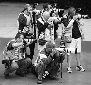 Photographers, Indianapolis, 2003, by Rick Dikeman